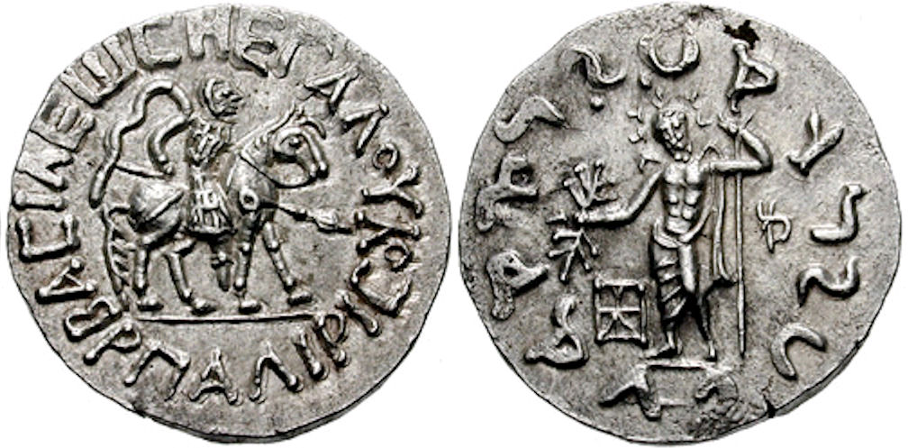 Coin of the Indo-Scythian king Spalirises. Obverse: Spalirises in armour on a horse. Greek legend BASILEUS MEGALOU SPALIRISOU "Great king Spalirises". Reverse: Zeus holding thunderbolt. Kharoshthi legend, about 80 BC.